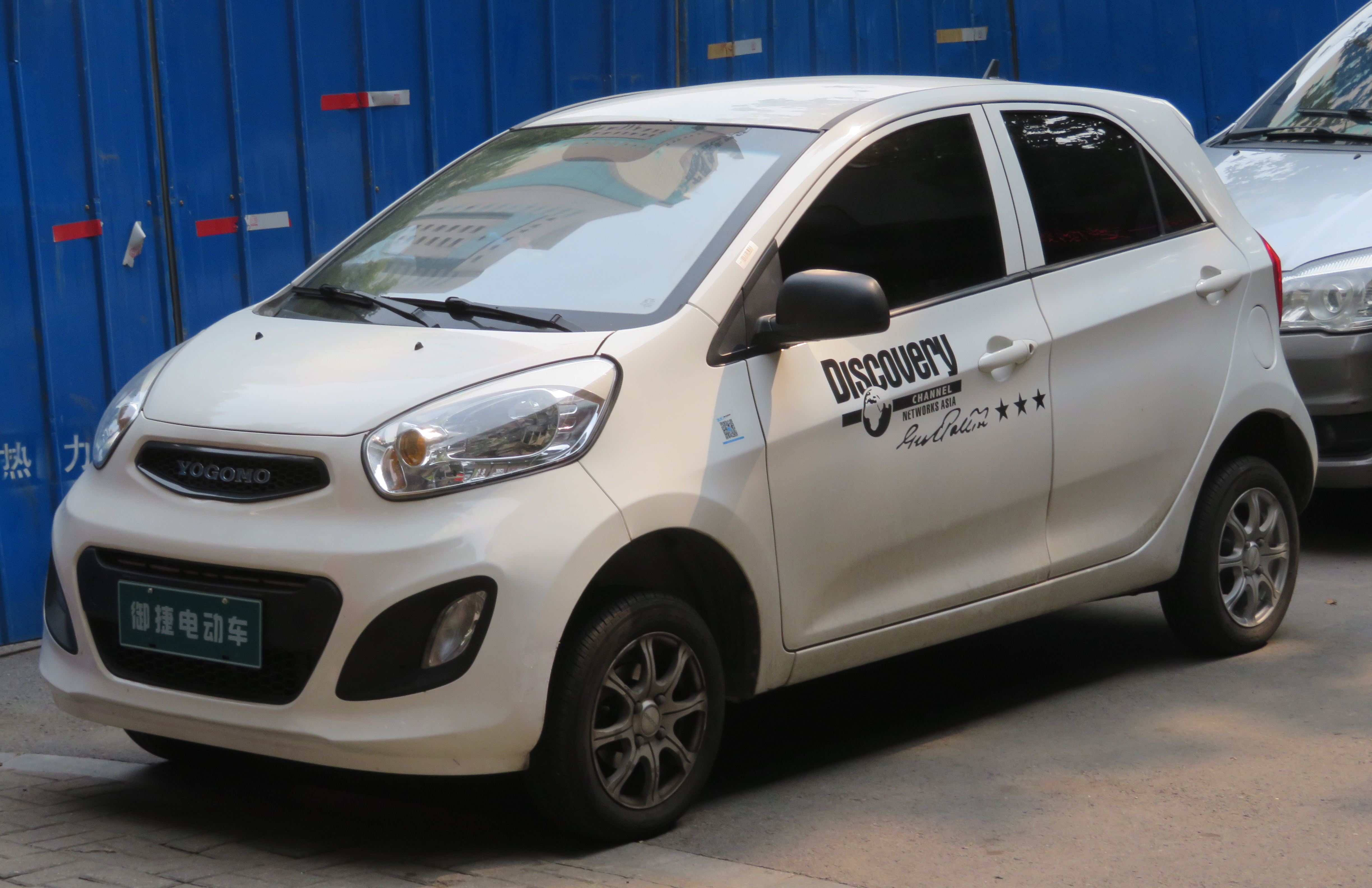 Photographed in Luoyang, Henan province, China